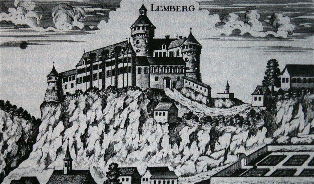 The castle of Lemberg pri Novi Cerkvi (Slovenia) in 1681, made by Georg Matthäus Vischer (1628–1696)